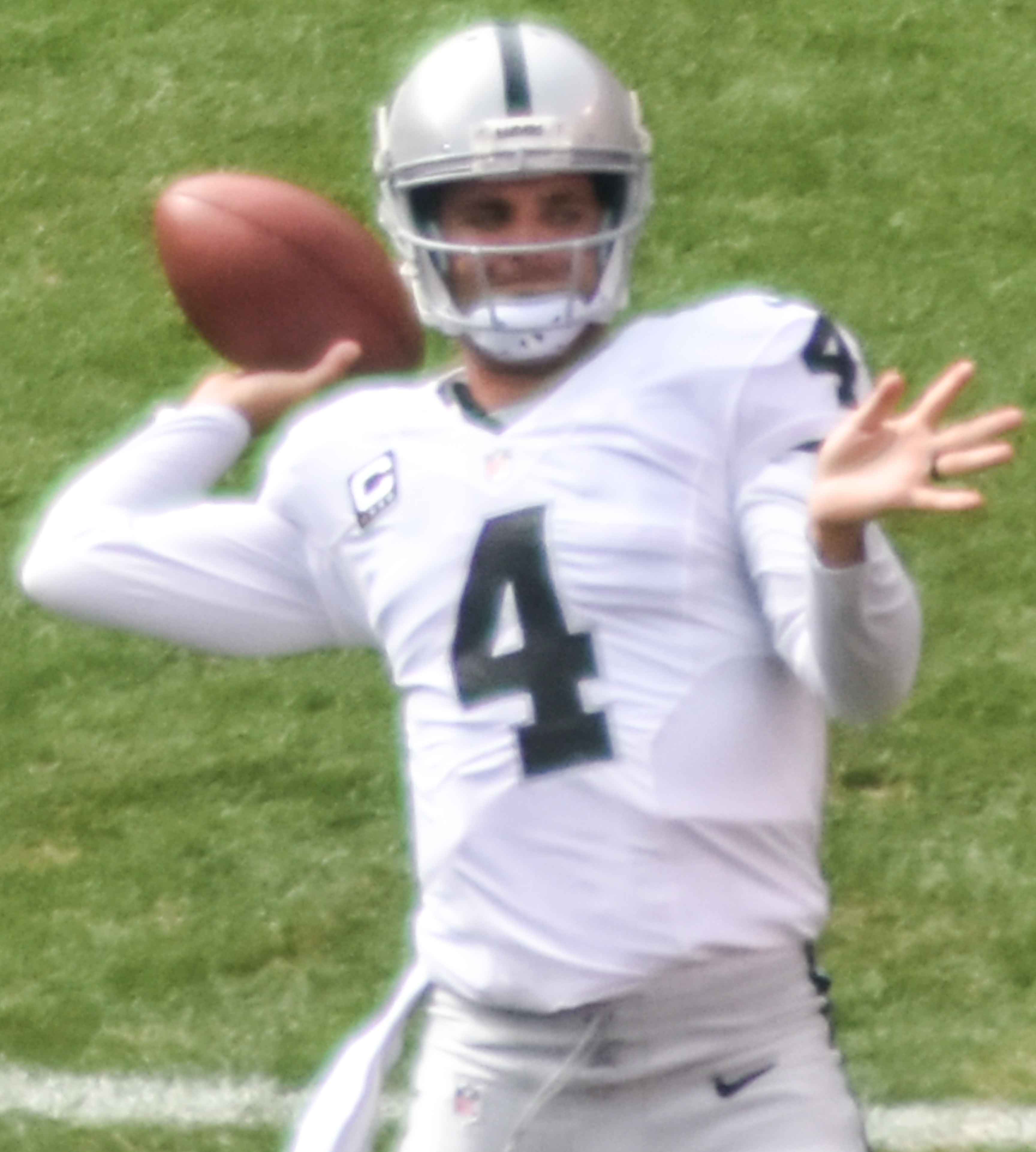 Cleveland Browns vs. Oakland Raiders